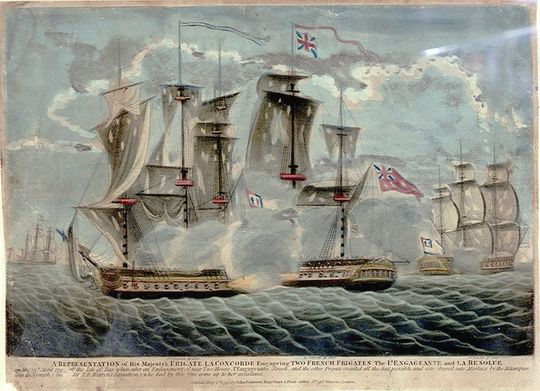 A Representation of His Majesty's Frigate La Concorde Engageing Two French Frigates The L' Engageante and La Resolve on the 23d April 1794 off the Isle of Bas